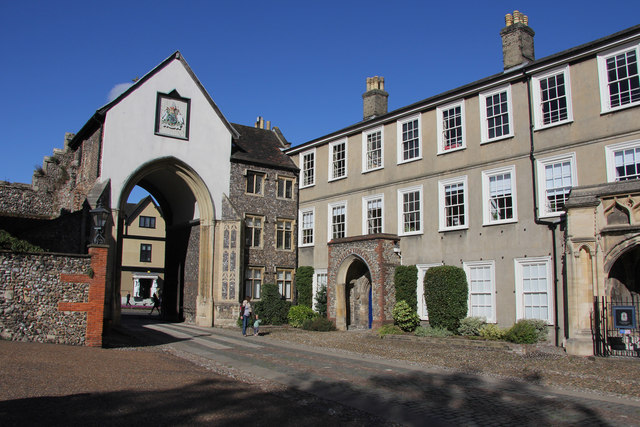 Erpingham Gate and adjoining buildings from inside the close of Norwich Cathedral